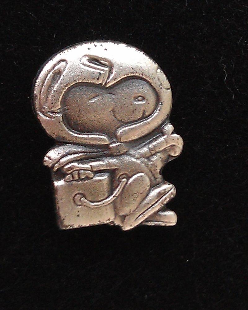 NASA Silver Snoopy award lapel pin (tie tack) flown aboard STS-116